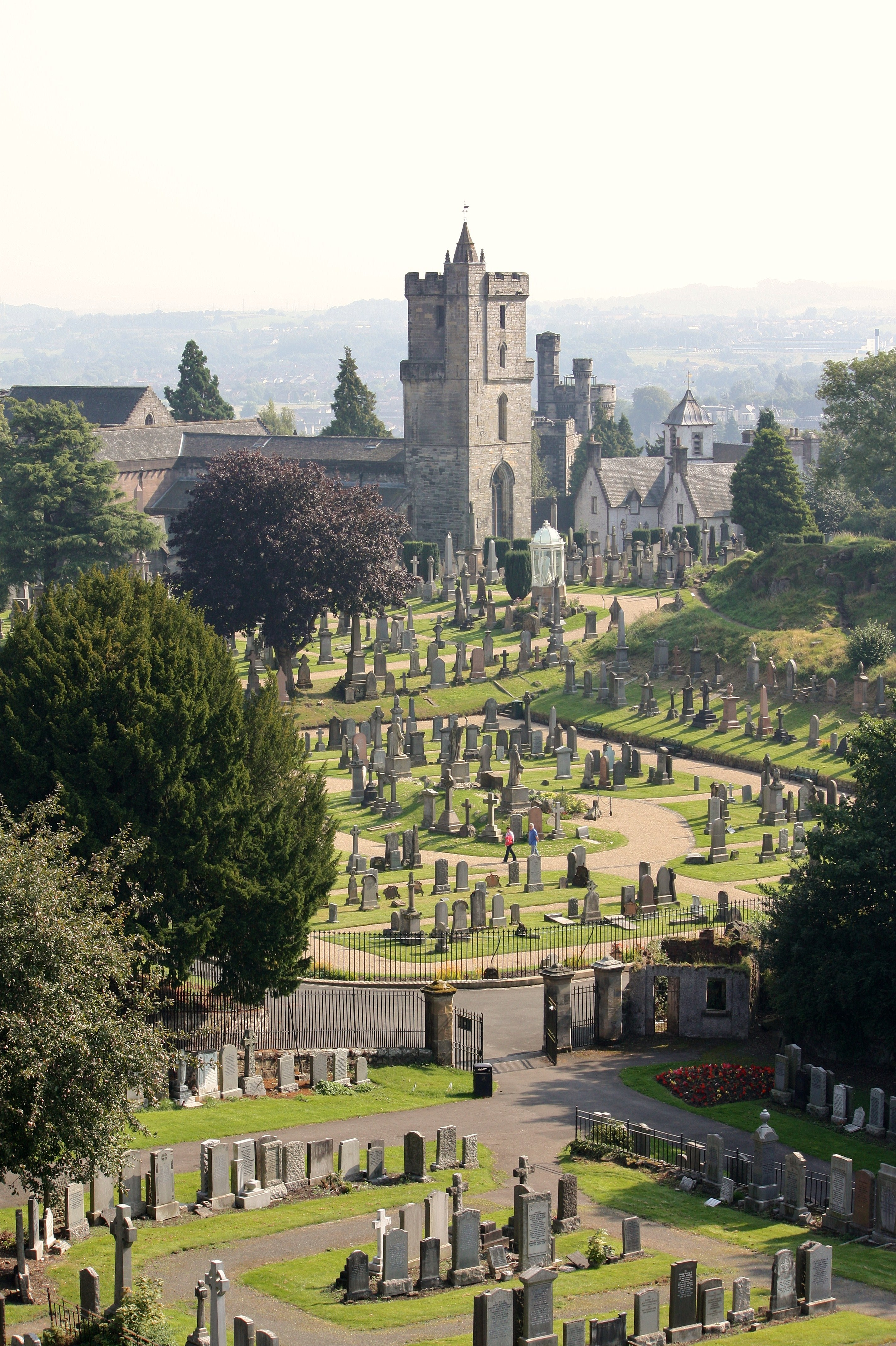 Church of the Holy Rude, Stirling, Scotland. View from Stirling Castle.